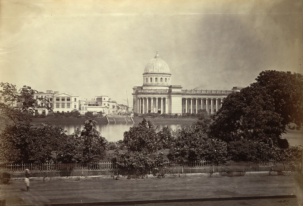 Lall Dighi and General Post Office (GPO), Calcutta